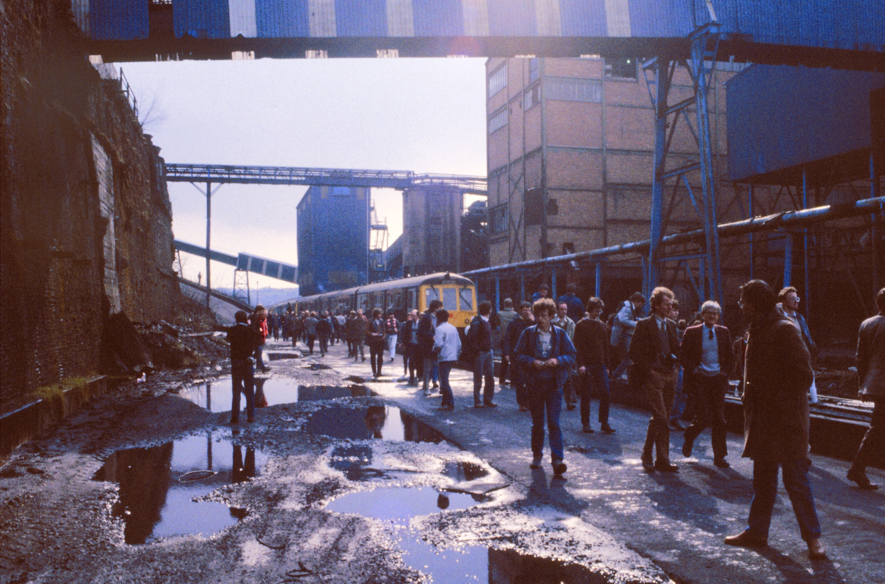 Tour participants in the Monmouthshire Railway Society 'Risca Cuckoo' wander around the coal dusted ground and filthy puddles at Oakdale Colliery on 5 April 1986.